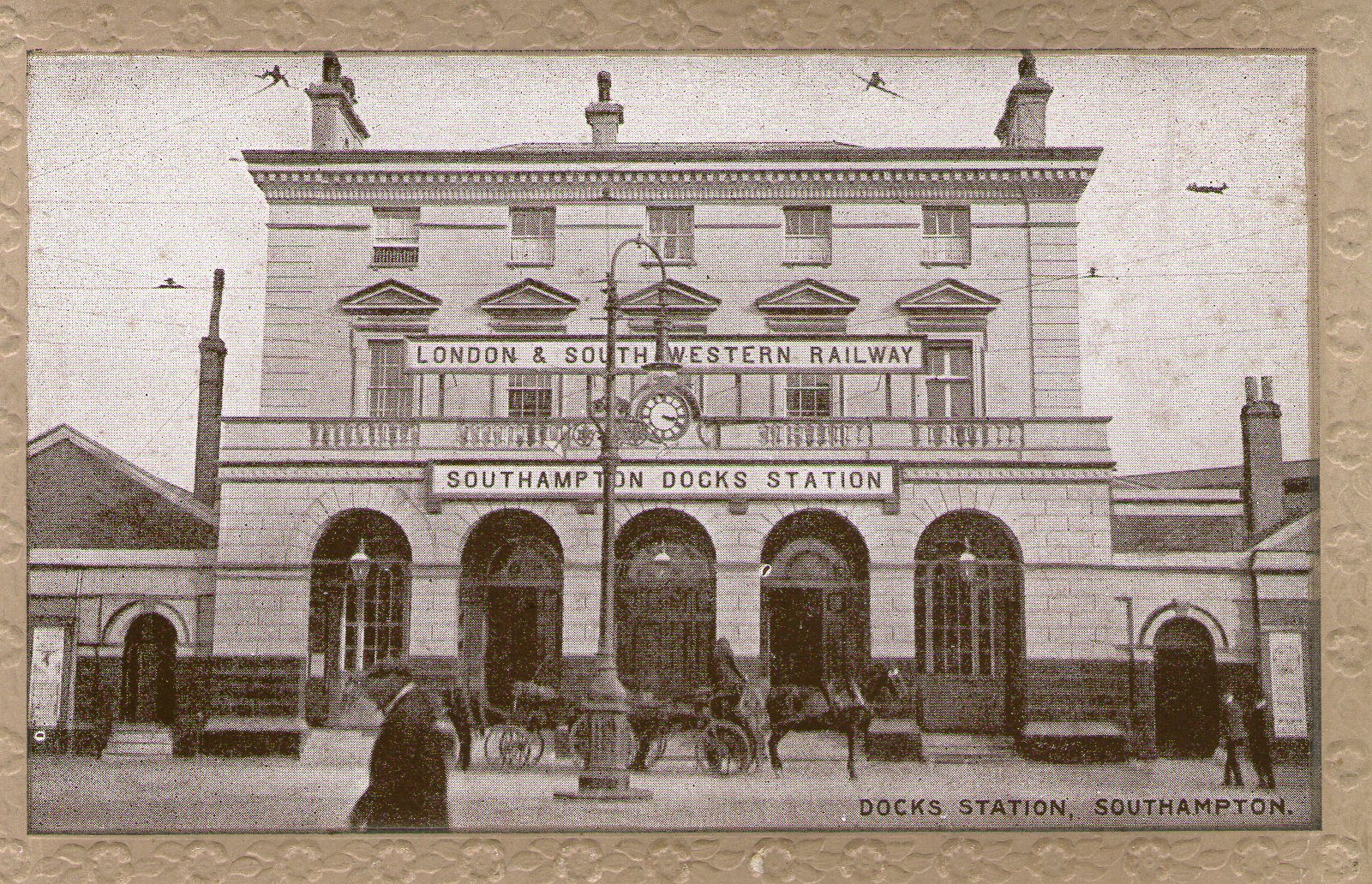 Southampton Terminus railway station